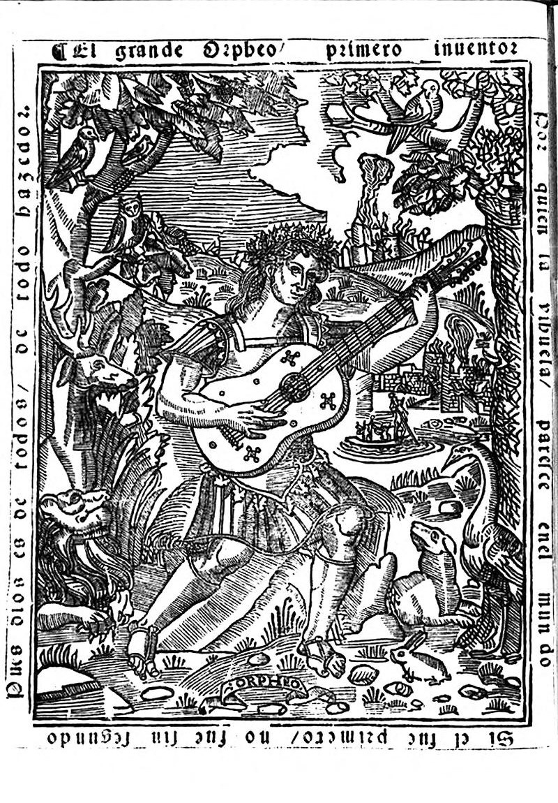 Orpheus taming the wild beasts with a vihuela in El Maestro by Luys Milan. caption quoted from Vihuela: "Orpheus playing a vihuela. Frontispiece from the famous vihuela tabulature book by Luis de Milán, Libro de música de vihuela de mano intitulado El maestro (1536). The text surrounding the image praises Orpheus as the inventor of the vihuela."